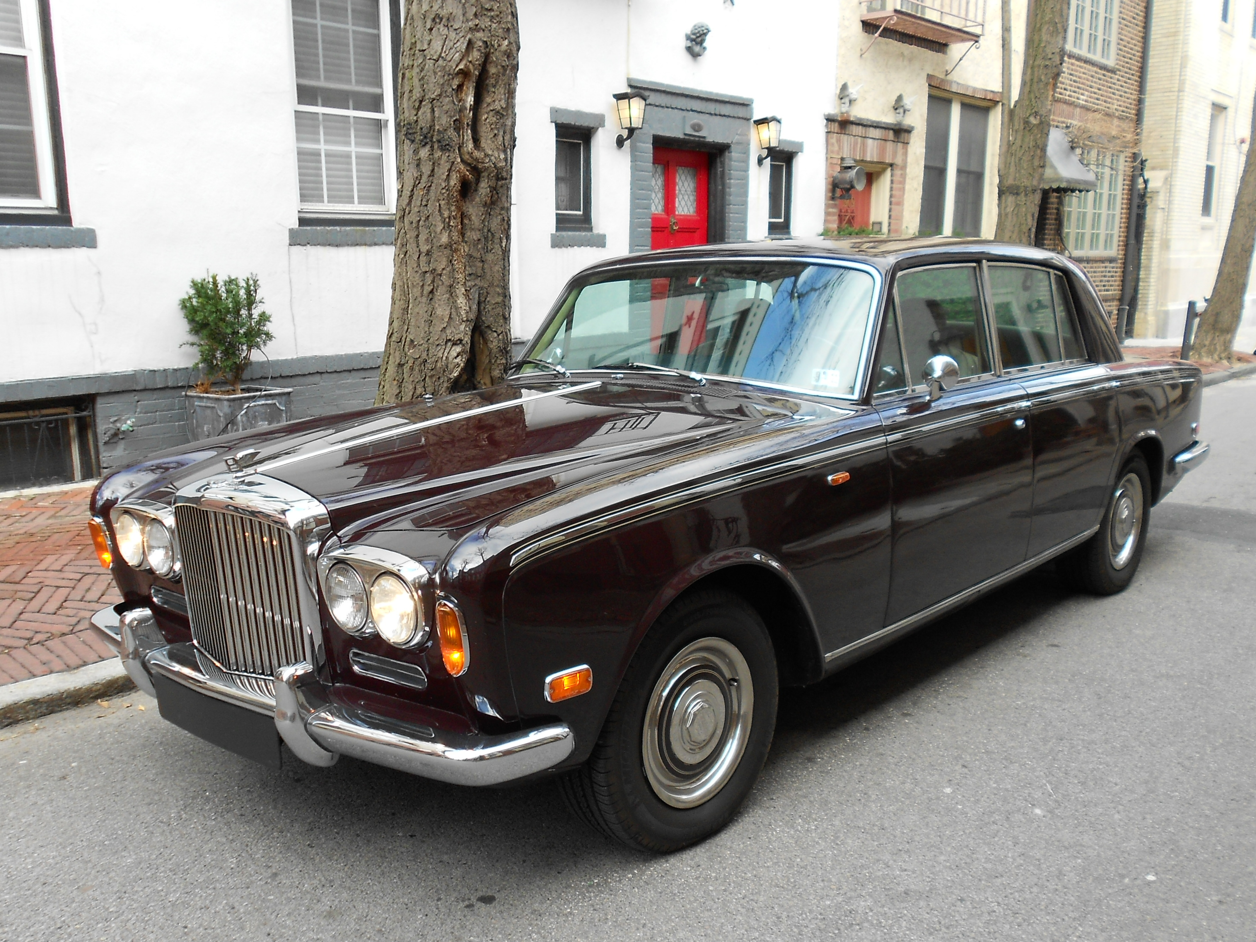 1970 Bentley T series 1 with chrome bumpers